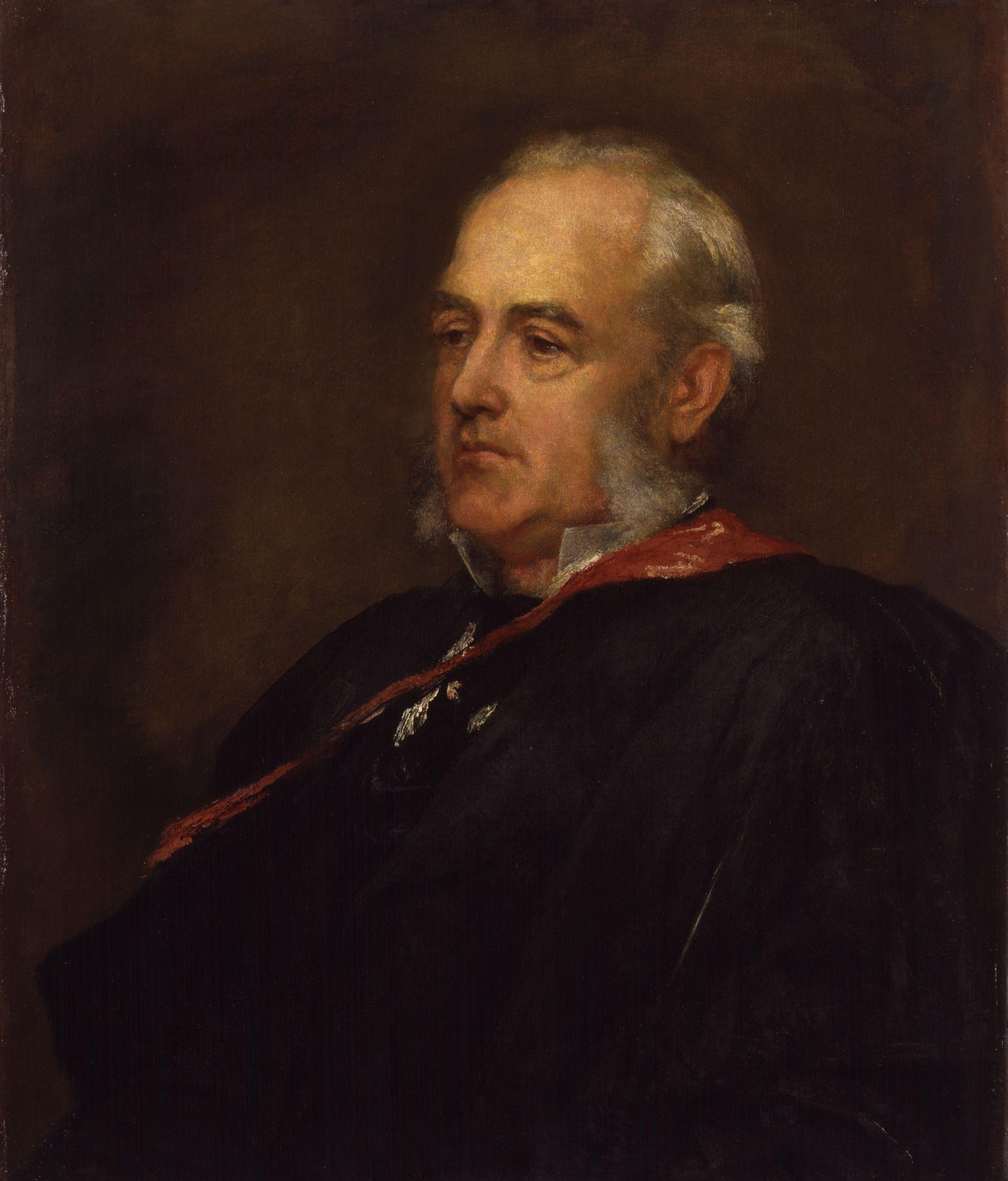 Friedrich Max-Müller, by George Frederic Watts (died 1904), given to the National Portrait Gallery, London in 1900. All images in this batch have been confirmed as author died before 1939 according to the official death date listed by the NPG.